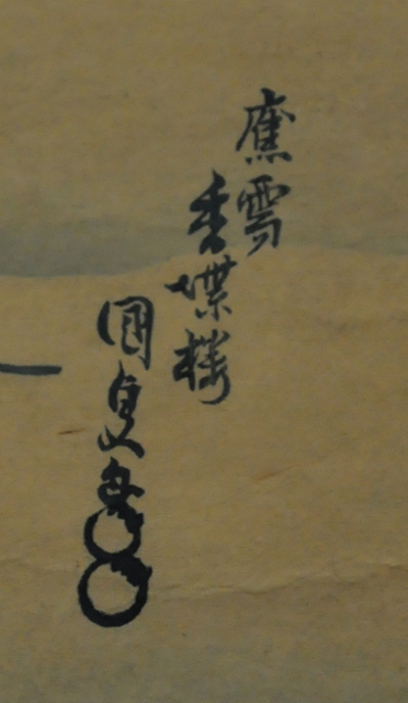 Signatures and seals